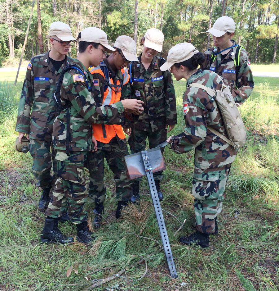 Wing Civil Air Patrol cadets collaborate before setting out for their next objective during land navigation training, July 22. This is the fourth year the Georgia Wing CAP has conducted its weeklong summer encampment at Marine Corps Logistics Base Albany.